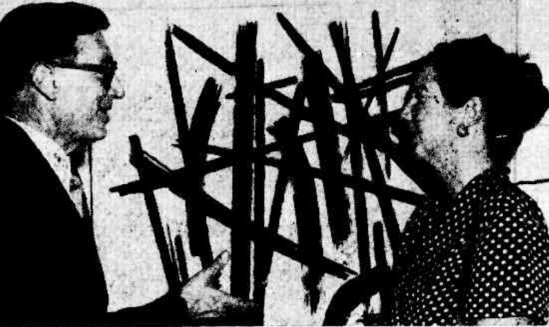 Artist Margaret Olley and Sam Hughes at French Painting Today, Sydney 1953, 1st of March 1953